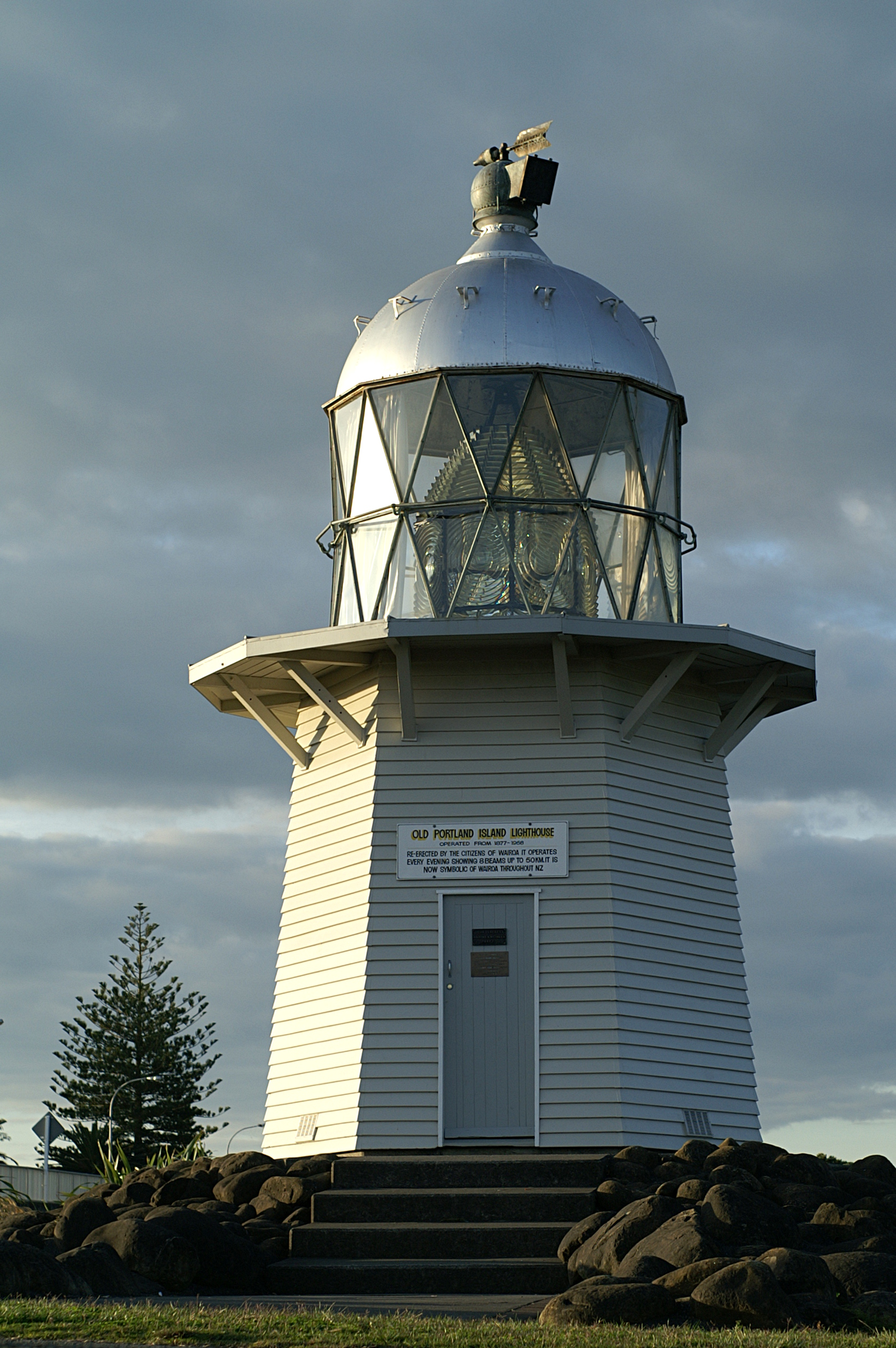 Old Portland Lighthouse in Wairoa, New Zealand. It is listed with the New Zealand Historic Places Trust, Register number: 4852.